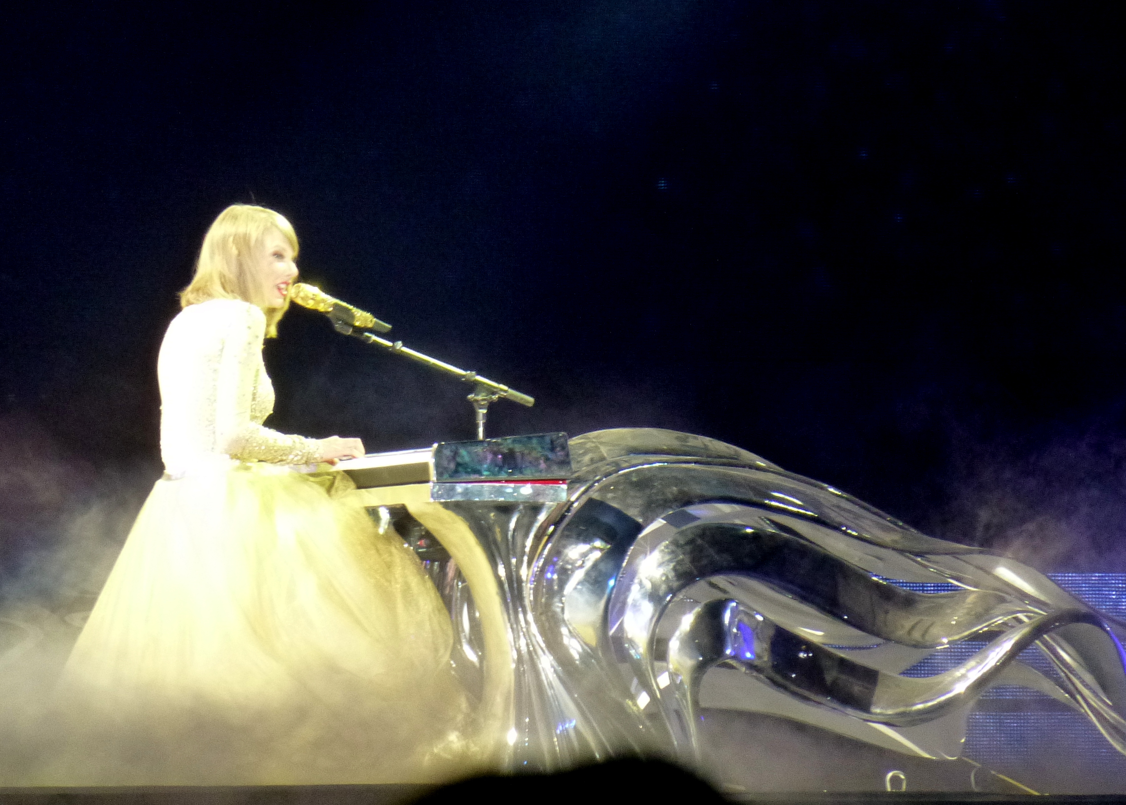 Taylor Swift 1989 Tour at Ford Field in Detroit, 5/30/15